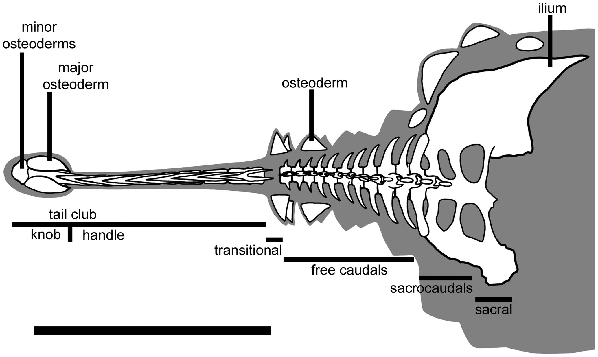 Diagram of tail terminology used in this paper. Ankylosaurid (Dyoplosaurus acutosquameus) tail reconstructed from ROM 784; ROM 784 lacks the transitional caudal vertebra and the anterior portion of the pelvis. Scale bar equals 1 m. Modified from Arbour et al. (in press).